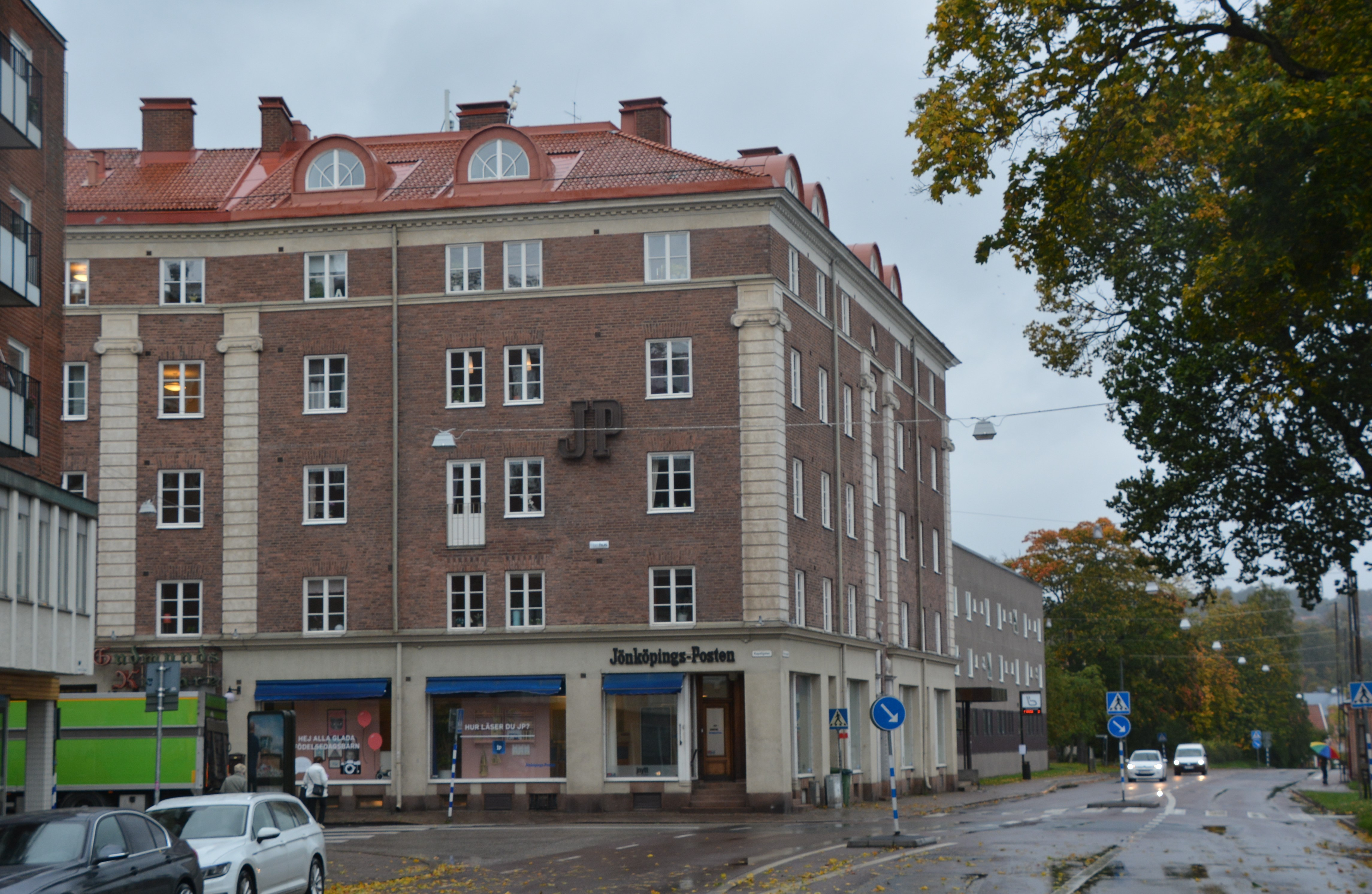 Office building of Jönköpings-Posten, Kapellgatan/Västra Storgatan in Jönköping